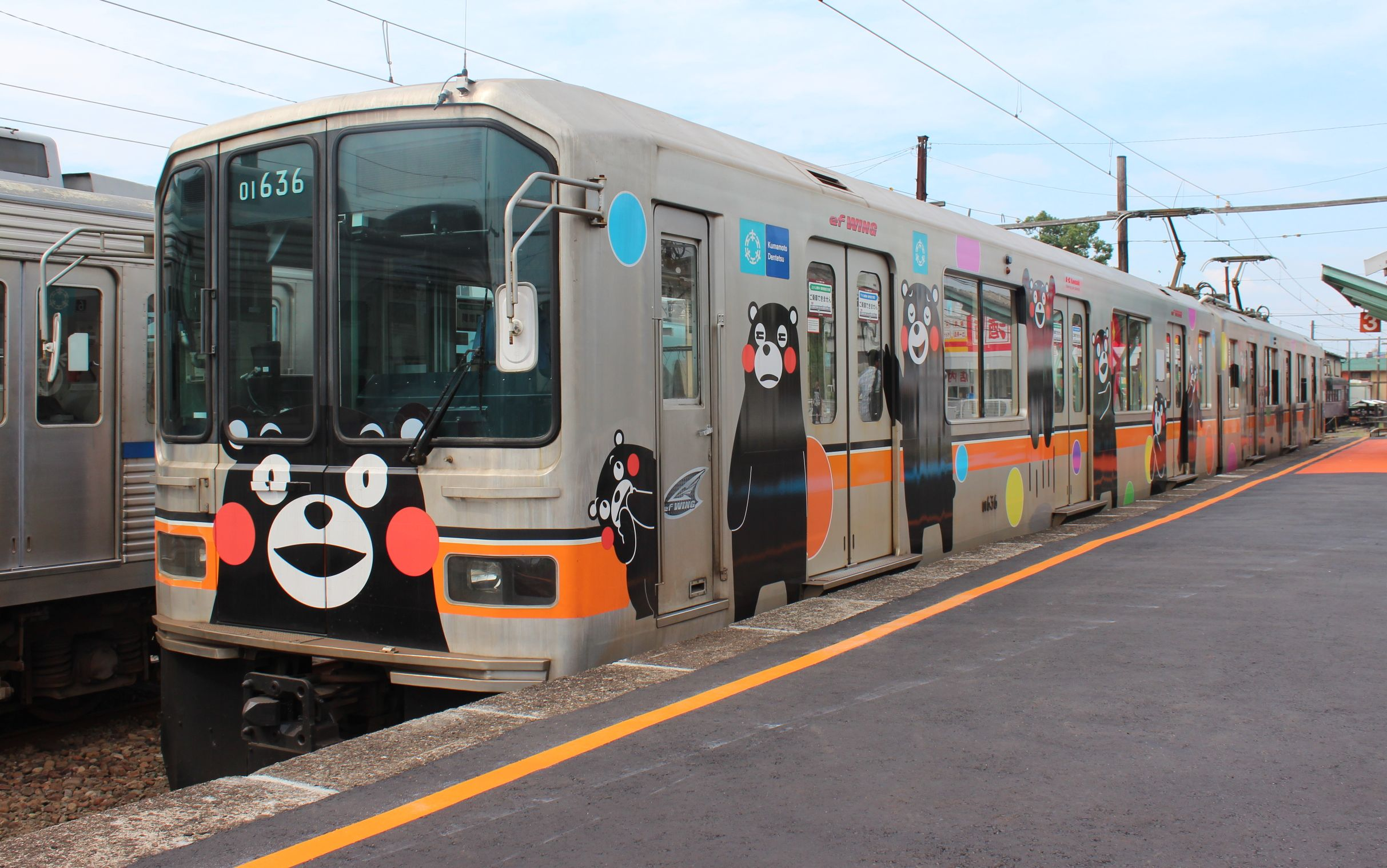 Kita-Kumamoto Station